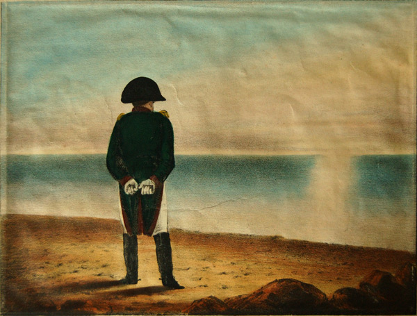 Napoleon on Elba, an early 19th-century painting of the French dictator in exile. Compare similar paintings during his St Helena exile.